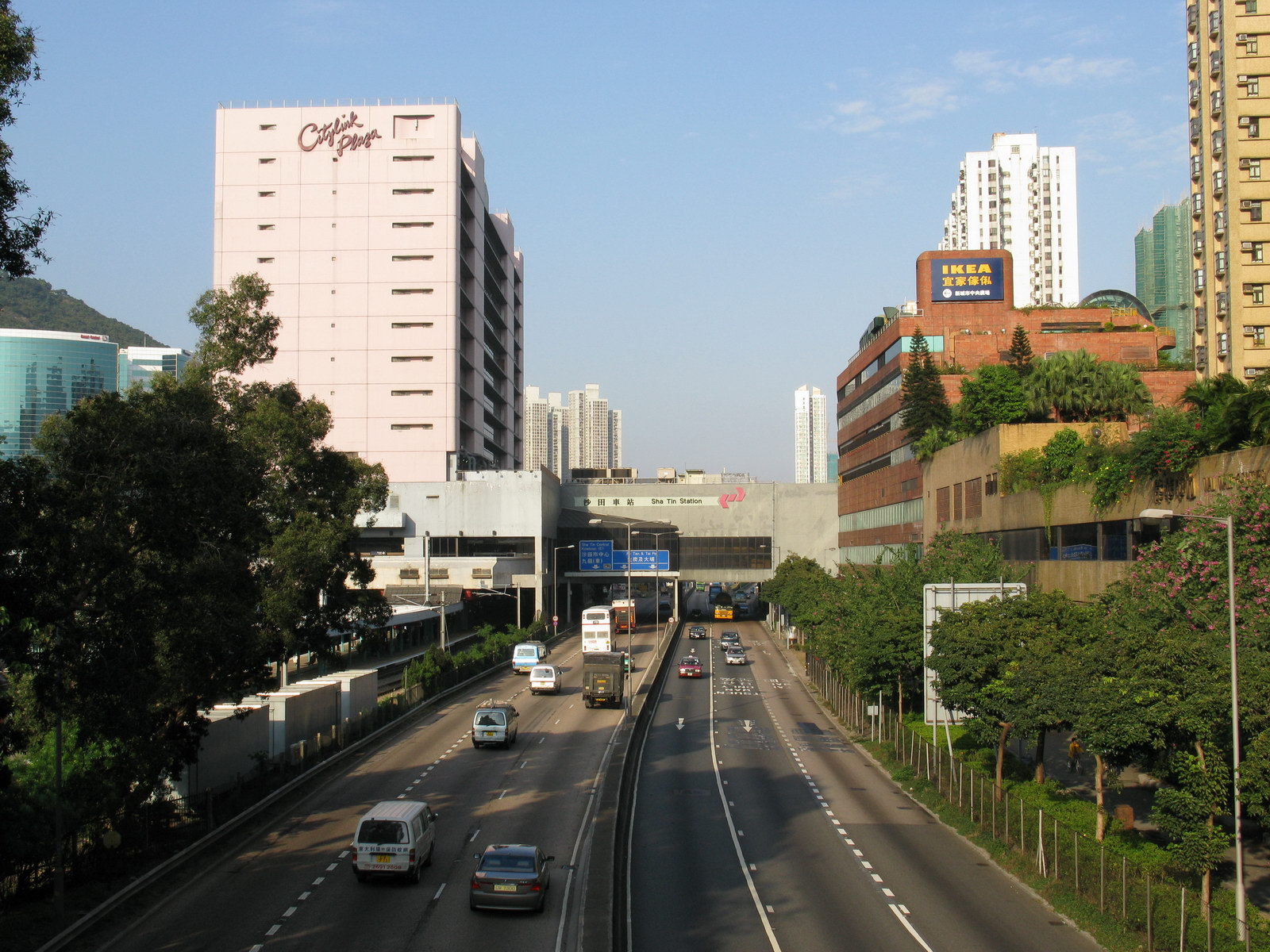 大埔公路-沙田段 Tai Po Road Sha Tin Section